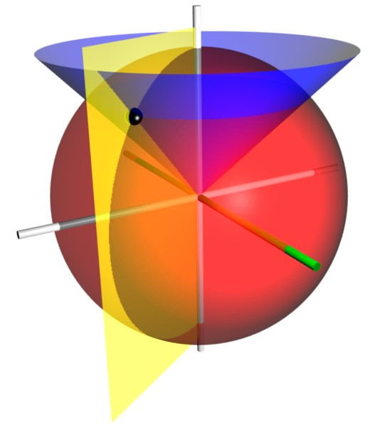 Coordinate surfaces for spherical coordinates.